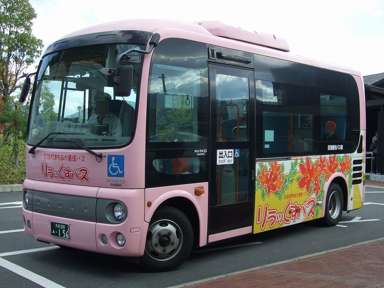 Kusu Town Community Bus "Rirakkusu Bus" Company:Kusu Kanko Bus Use:transit bus (community bus) Car license:OT 200 A 156 Chassis manufacturer:Hino Type:Poncho Coachbuilder:J-BUS Location:In front of Bungo-mori Station, Kusu Town, Oita, Japan.